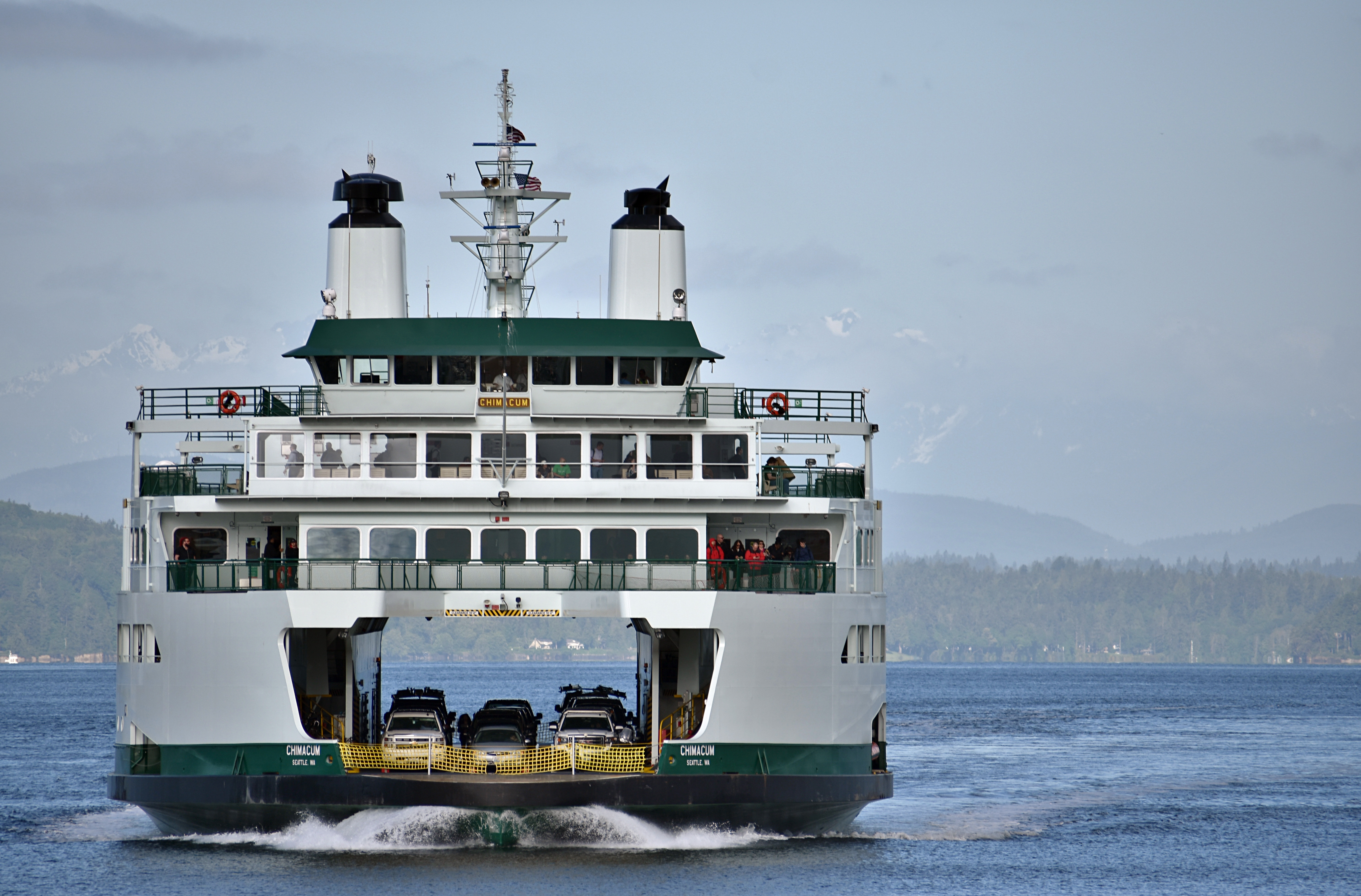 Here, the M/V Chimacum is arriving in Seattle for the first time with passengers on board. This was her first trip from Bremerton to Seattle.